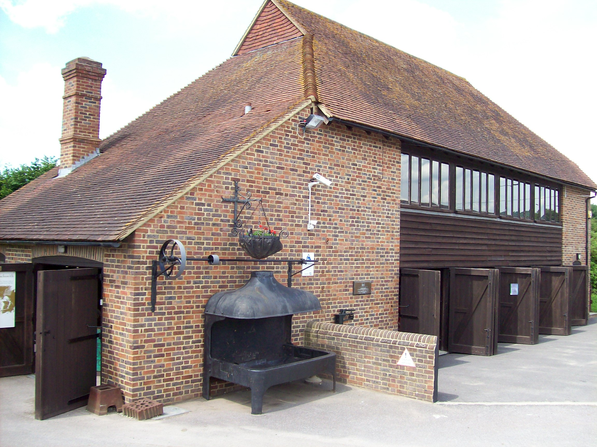 The wagons store and forge at the Museum of Kent Life